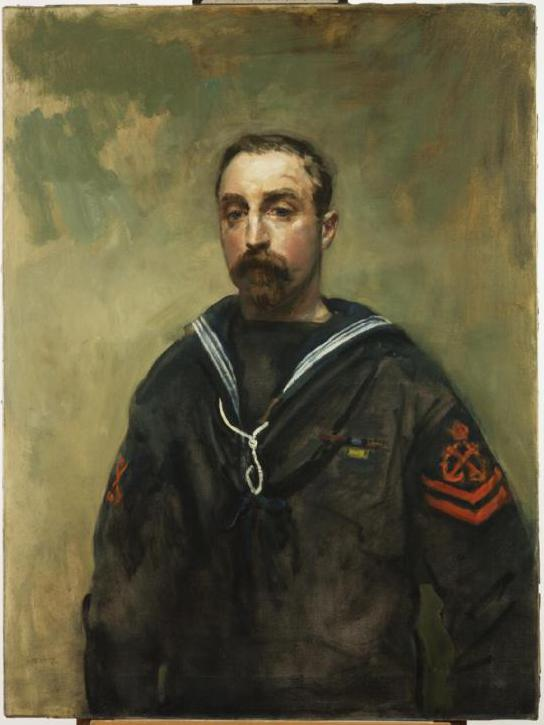 A half-length portrait of Petty Officer Ernest Herbert Pitcher VC, awarded the Victoria Cross for his actions on 8 August 1917 aboard HMS Dunraven.